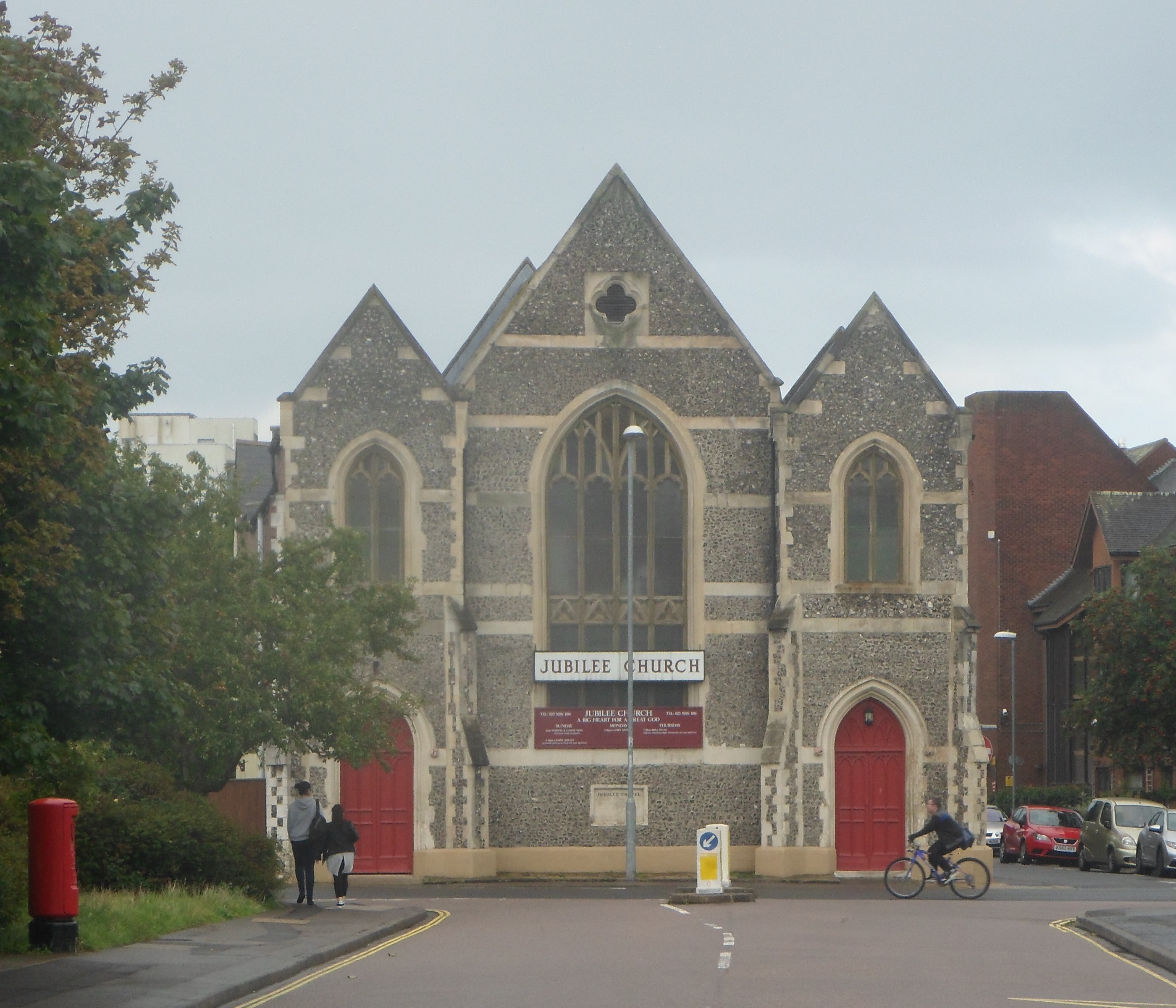 Jubilee Pentecostal Church, Somers Road, Southsea, City of Portsmouth, England. Built in 1859–61 as a Primitive Methodist chapel; taken over by a Pentecostal group in 1948. The building is locally listed.